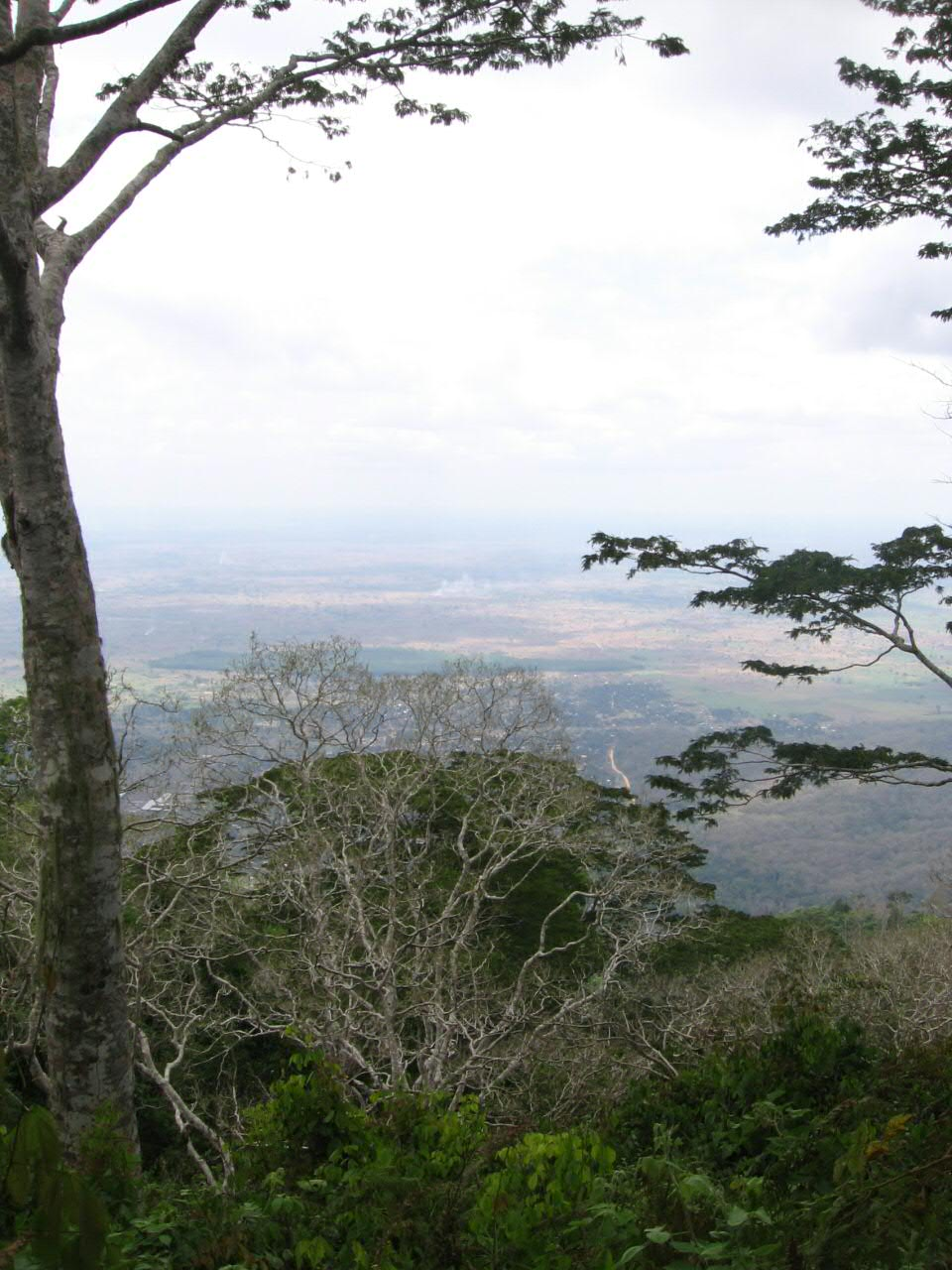 Kilombero Valley, Tanzania. Just next to the Udzungwa mountains lays the plains of Kilombero Valley, producer of sugar for the whole Tanzania.